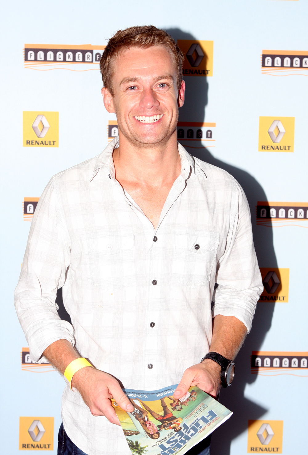 Flickerfest Short Film Festival opens at Bondi Pavilion, Bondi Beach, Sydney, Australia - 11th January 2013...